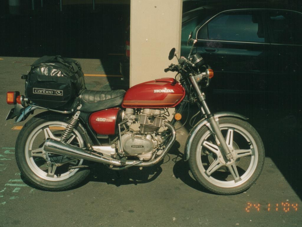 01-ready to go Honda Hawk CB400T